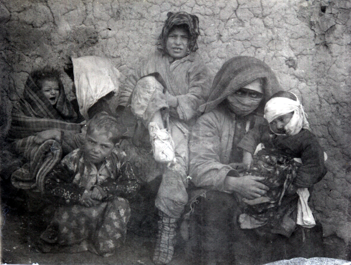 Wounded Muslim refugees from Alvar Village Erzurum at Caucasus Campaign in WWI